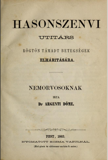 Title page of Argenti Döme's book